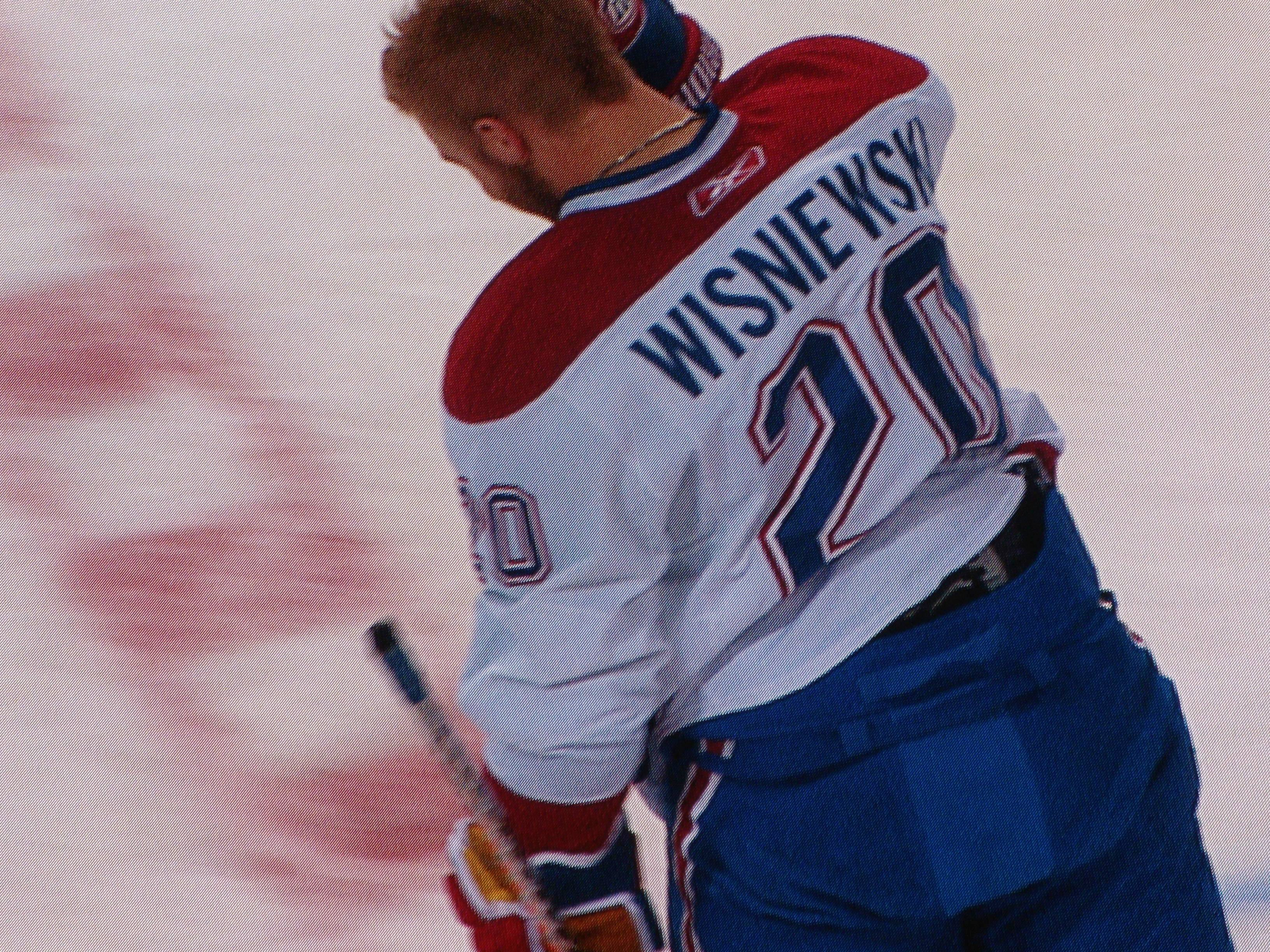 James Wisniewski in the Pratique Métro 2011